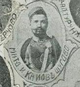 Portrait of IMARO member